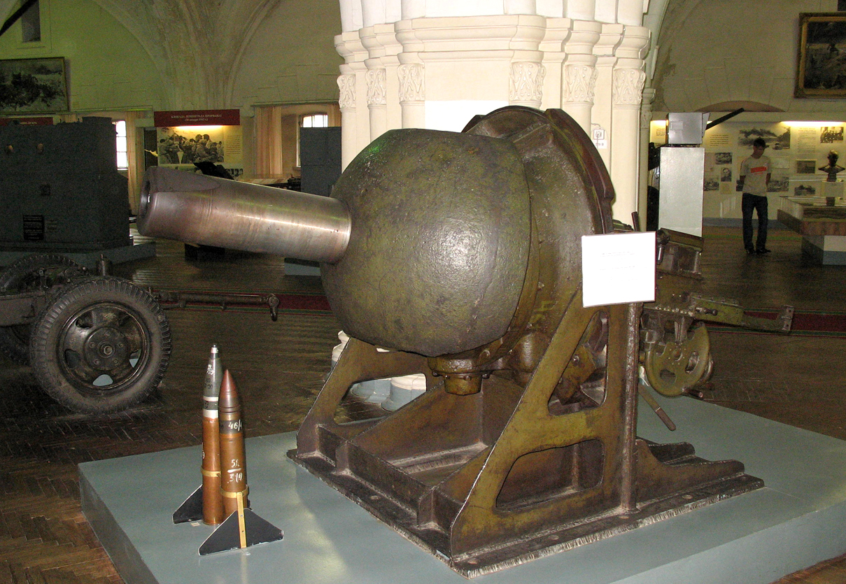 Soviet 76-mm bunker gun Л-17